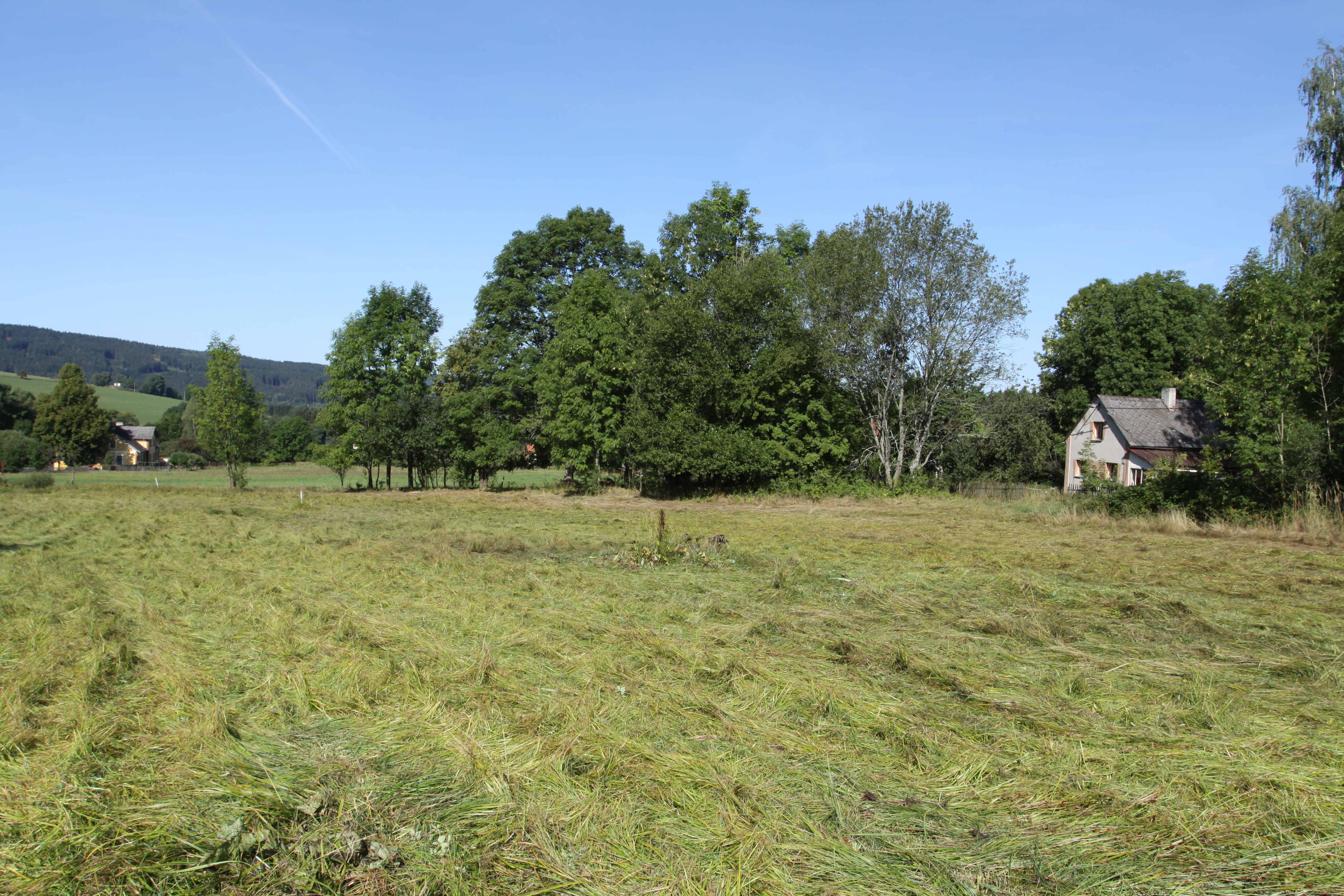 Natural monument Louka u Staré Huti near Nemanice village in Domažlice District, Czech Republic